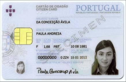 Portuguese citizen card.